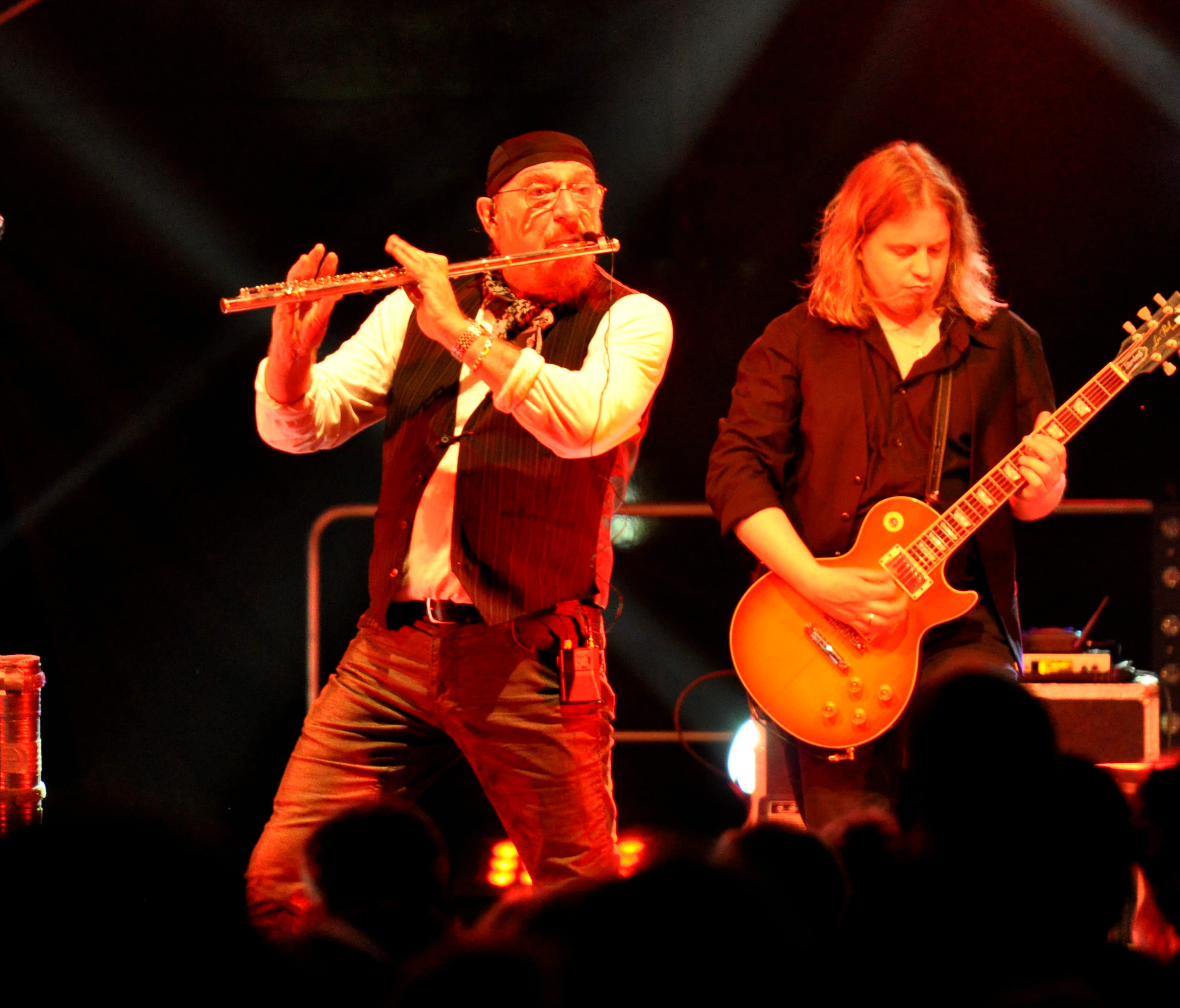 Ian Anderson [ex Jethro Tull] (GBR) appearance at the 2016 blacksheep festival at Bonfeld castle, Bad Rappenau, Baden-Wuerttemberg, Germany Festivalsommer This photo was created with the support of donations to Wikimedia Deutschland in the context of the CPB project "Festival Summer".